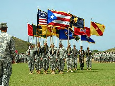 Puerto Rico Army National Guard - a Branch of the United States Army